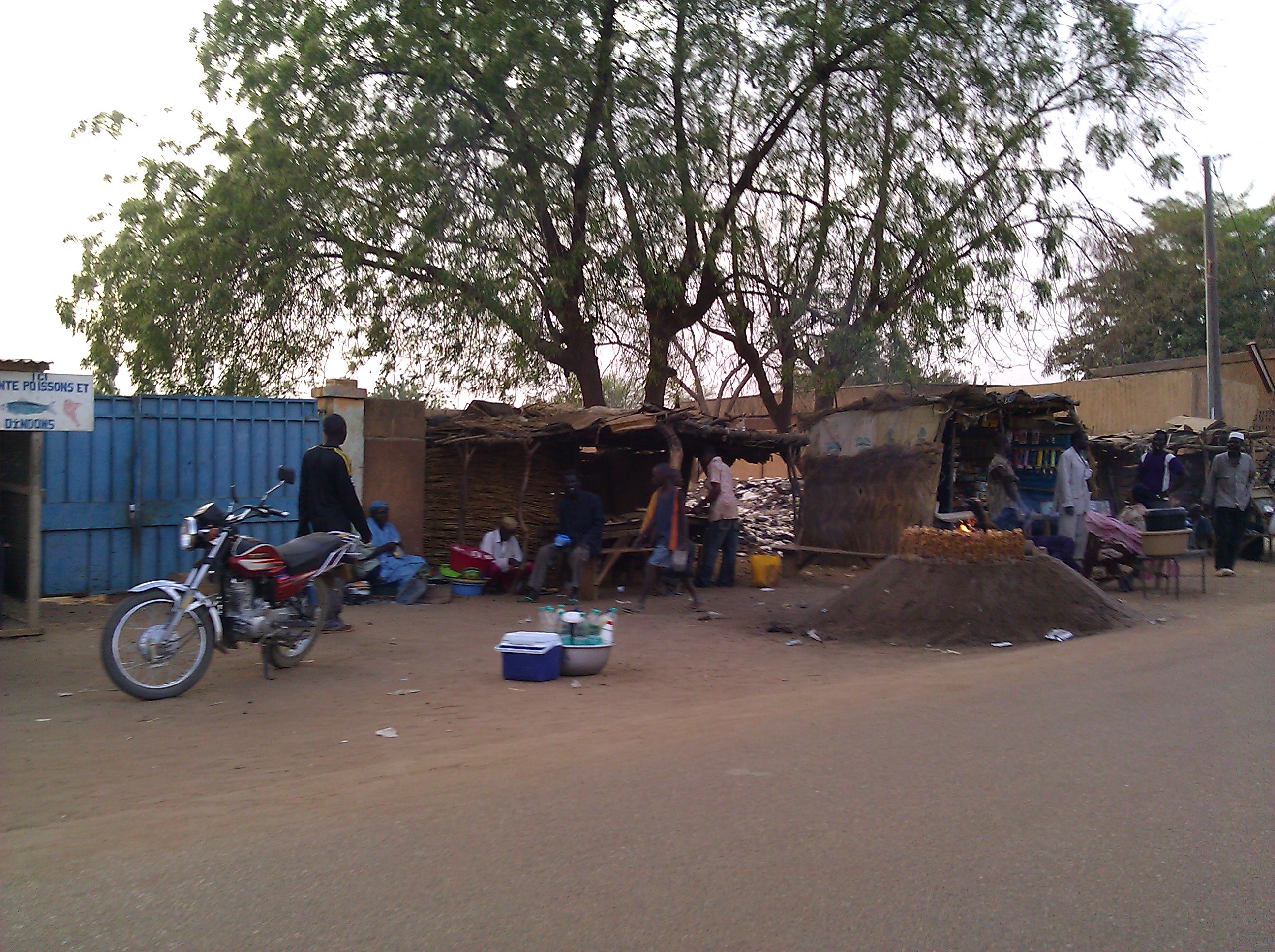 The streets of Niamey